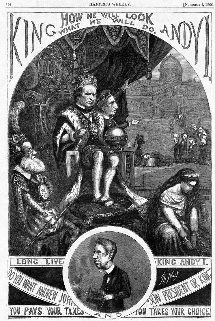 Cartoon prior to the 1866 election. President Andrew Johnson (depicted as King), looks on as his Grand Vizier, Secretary of State William H. Seward, signals the execution of Johnson's opponent, Congressman Thaddeus Stevens, with his head on the block. Behind Stevens, a number of Johnson's opponents await execution, including Nast himself (with sketchbook). Seward is seen again, in inset, with the legend "Do you want Andrew Johnson president or king?" was falsely attributed to Seward, who is seen with his wounds from the attempt on his life the night Lincoln was shot visible.